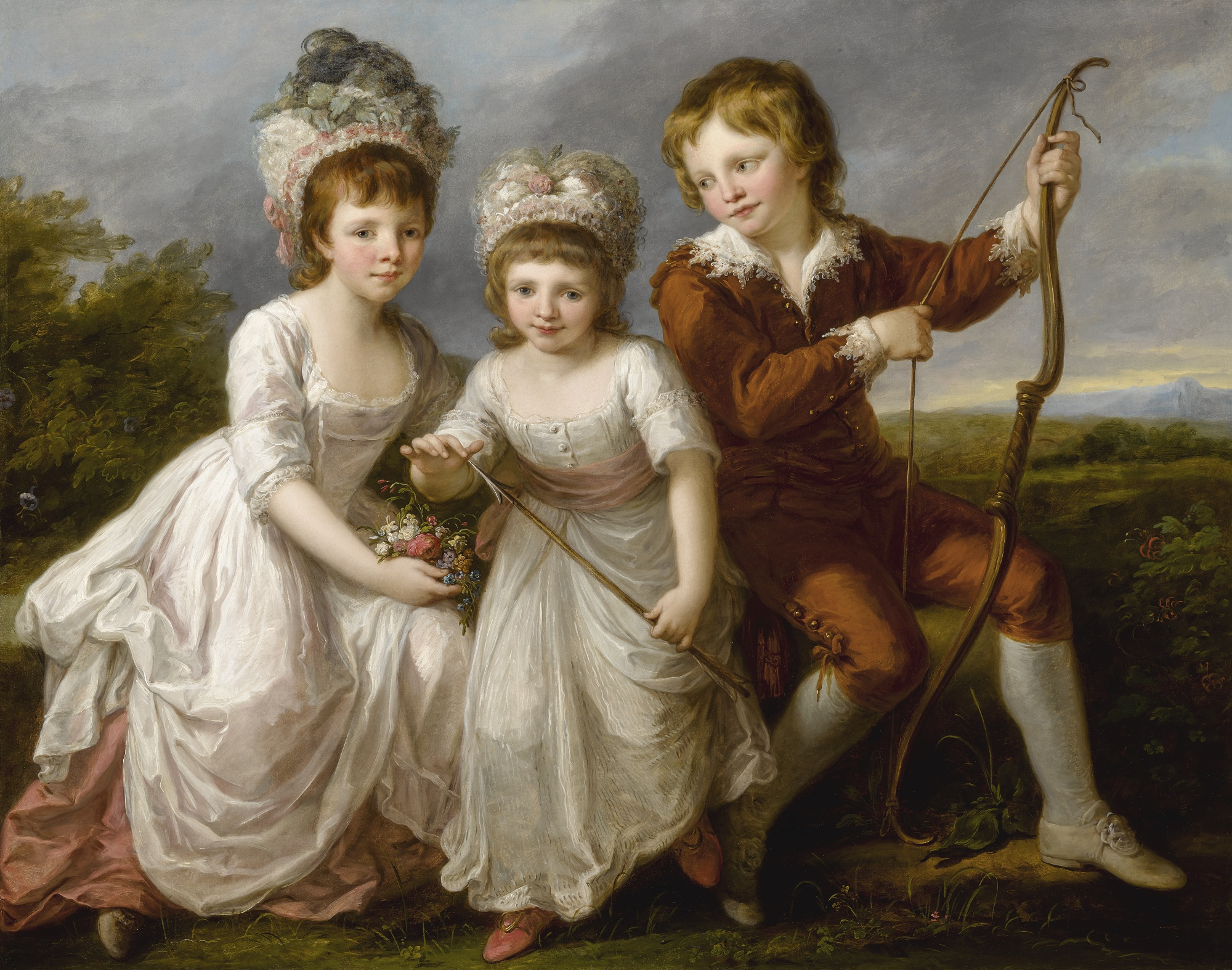 Portrait of Lady Georgiana Spencer, Henrietta Spencer and George Viscount Althorp by Angelika Kauffmann, c. 1766, oil on canvas, 44 3/4 by 57 in.; 113.6 by 144.8 cm